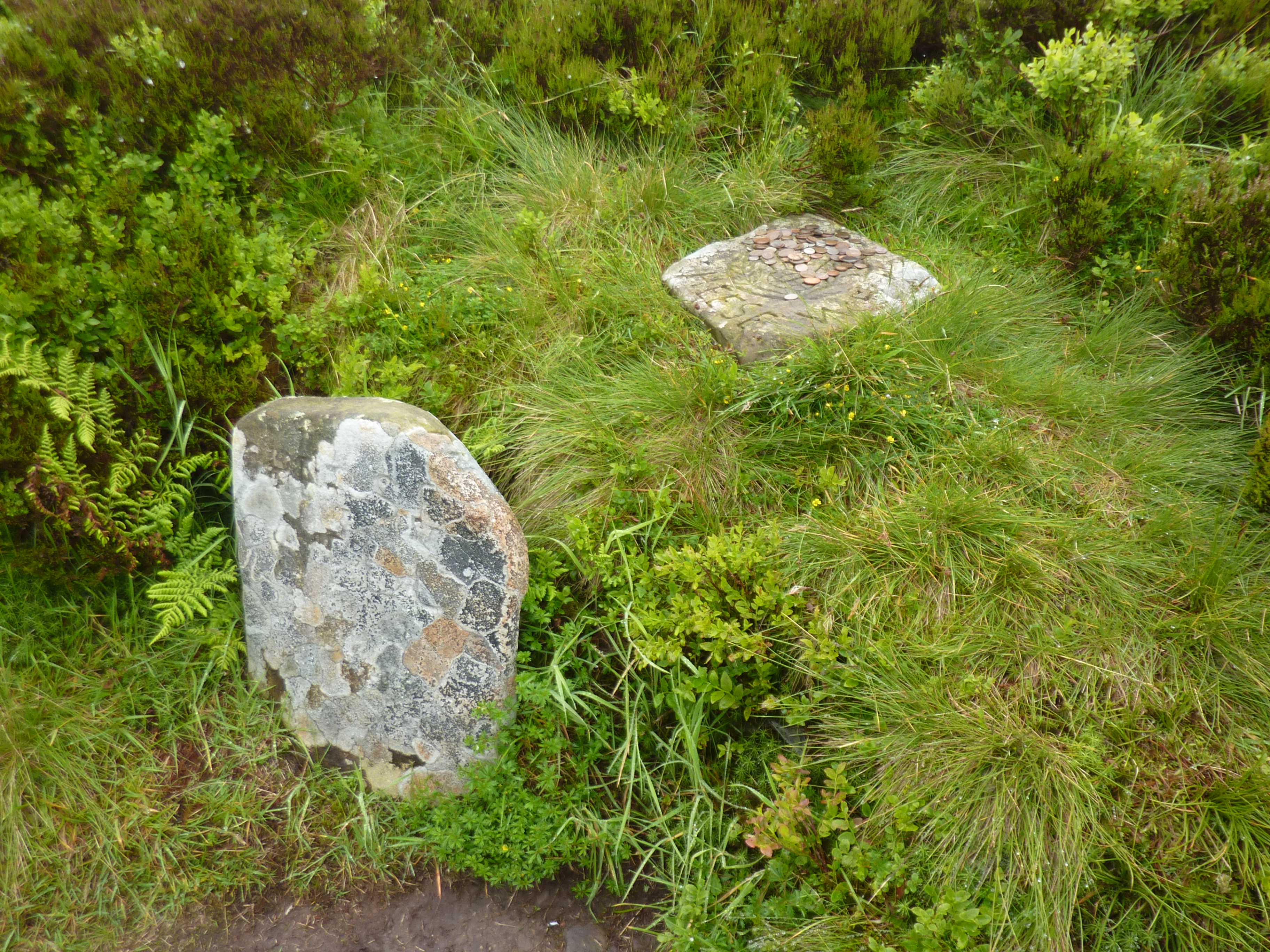 These two stones mark the Cheese Well where travellers used to leave cheese or other food to thank the faries for a safe journey. Day 14 of the Southern Upland Way blogged about at .uk/southernuplandway/day14